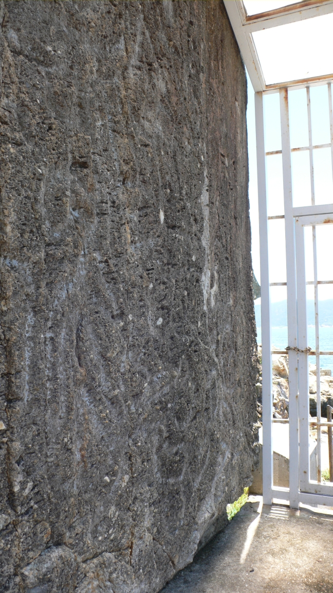 On the outlying island Tung Lung Chau at the east of Hong Kong, there is a rock carving which is declared as a historical monument.